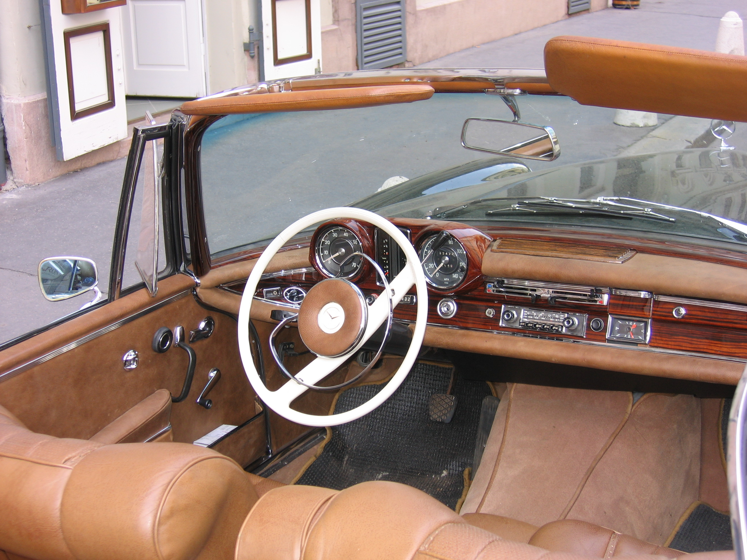 Mercedes-Benz Cabrio 250 SE in Budapest